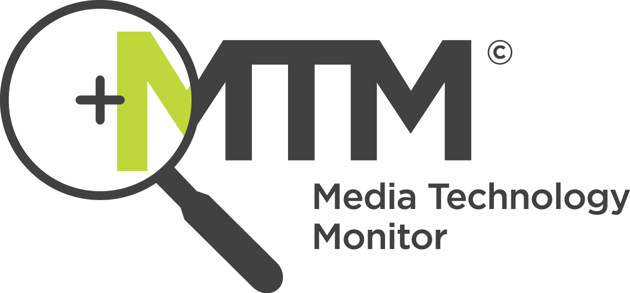 Media Technology Monitor logo made by Marc Chartrand for Research and analysis, a department of CBC/Radio-Canada